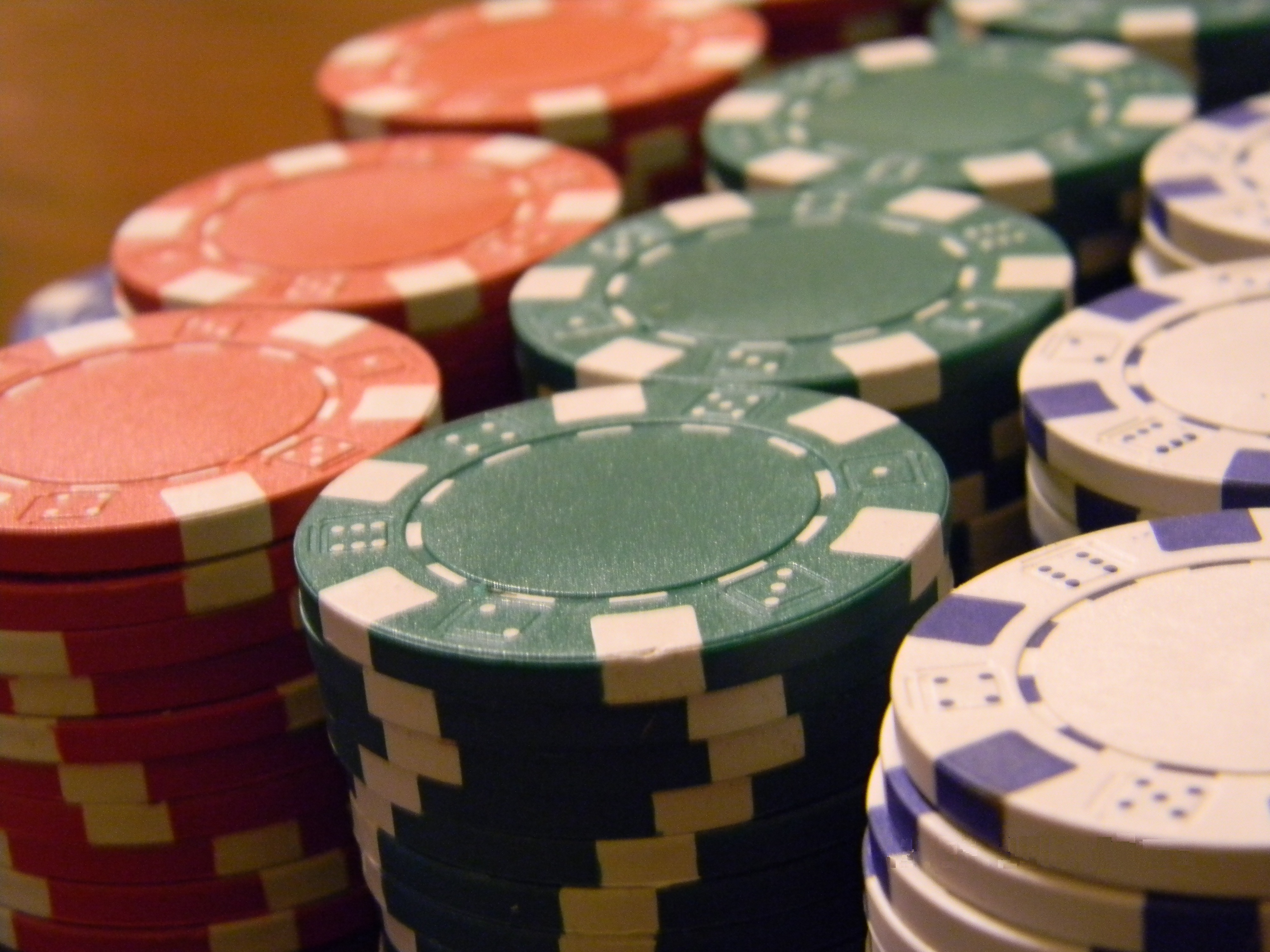 ejemplo de imagen